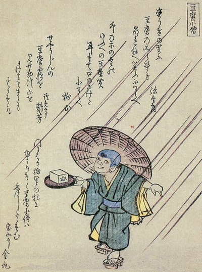 Tōfu-kozō (豆腐小僧, a spirit child carrying a block of tofu) from the Kyōka Hyaku Monogatari (狂歌百物語)